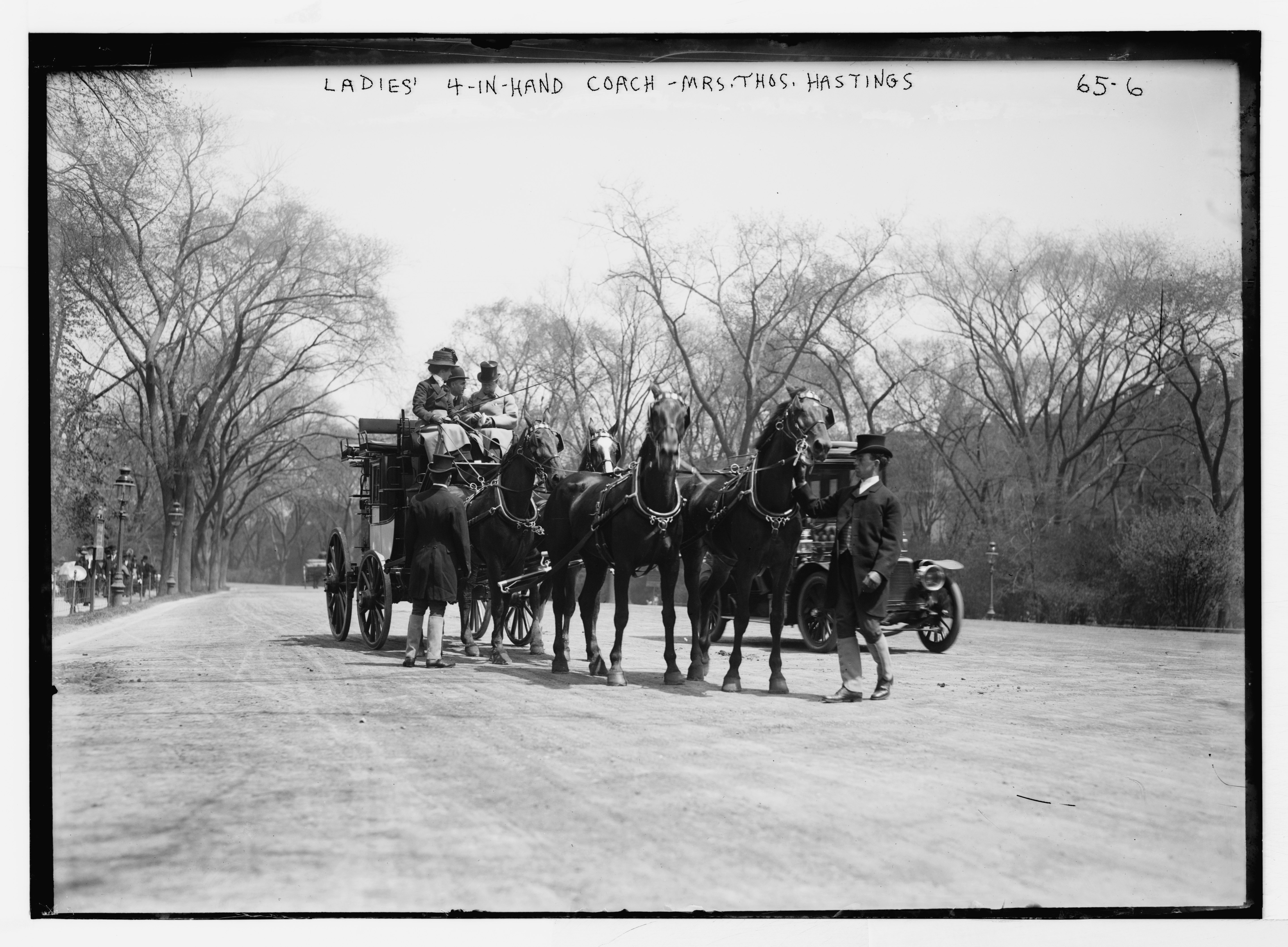 Title: Ladies 4-in-hand (4 horses) coach driven by Mrs. Thos. Hastings, New York Abstract/medium: 1 negative : glass ; 5 x 7 in. or smaller.